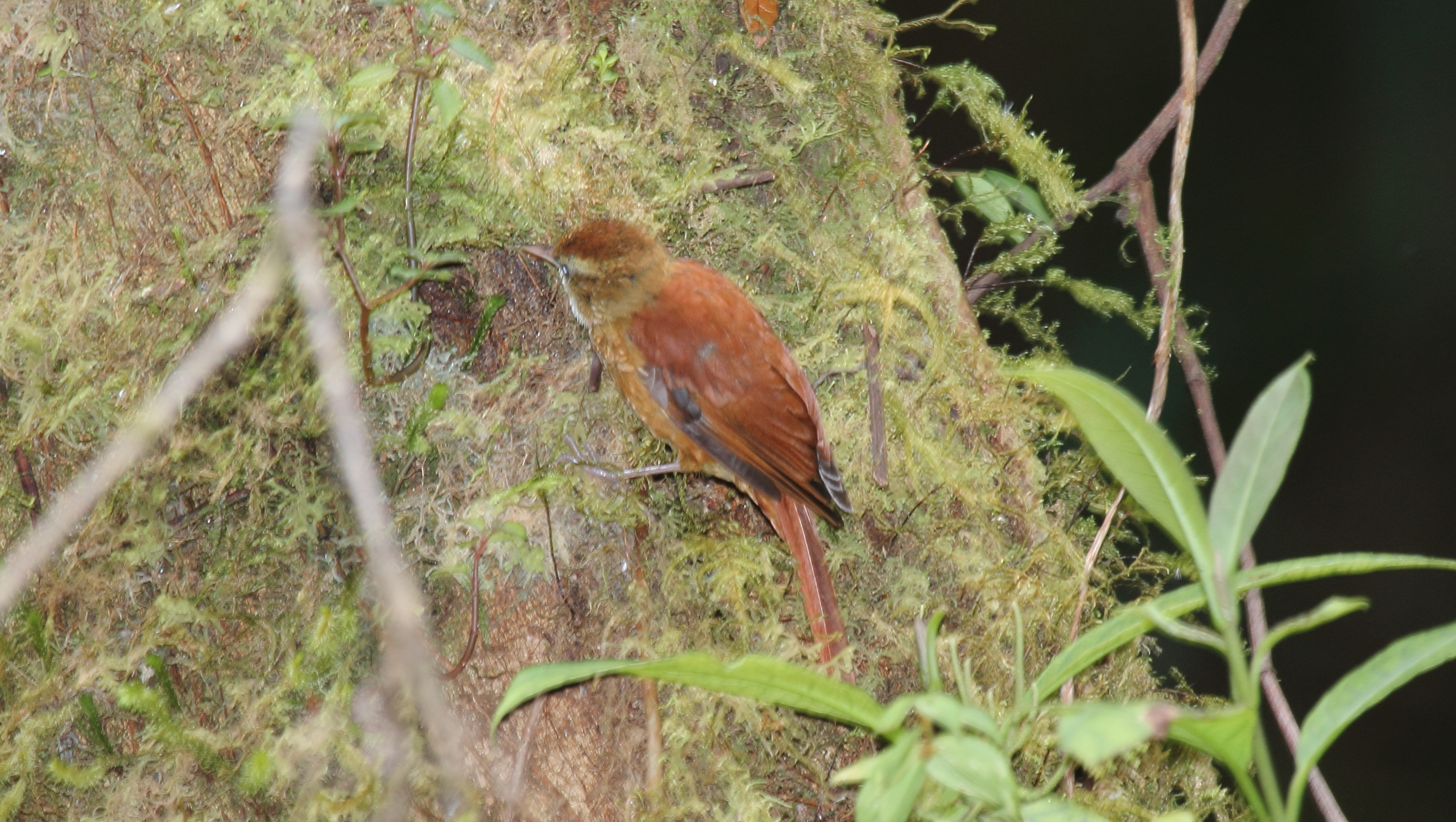 Ruddy Treerunner (Margarornis rubiginosus). Photographed at Savegre, in Costa Rica.